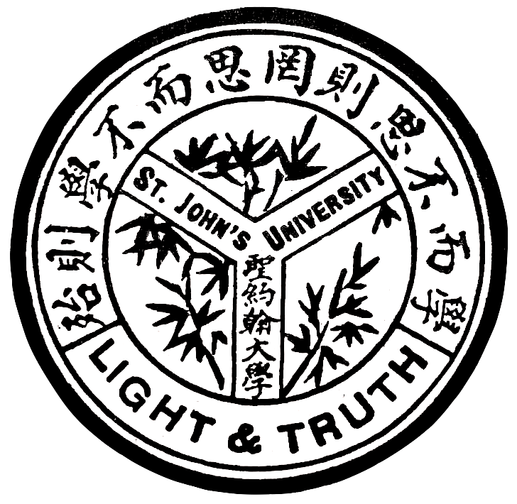 St. John's University Shanghai logo